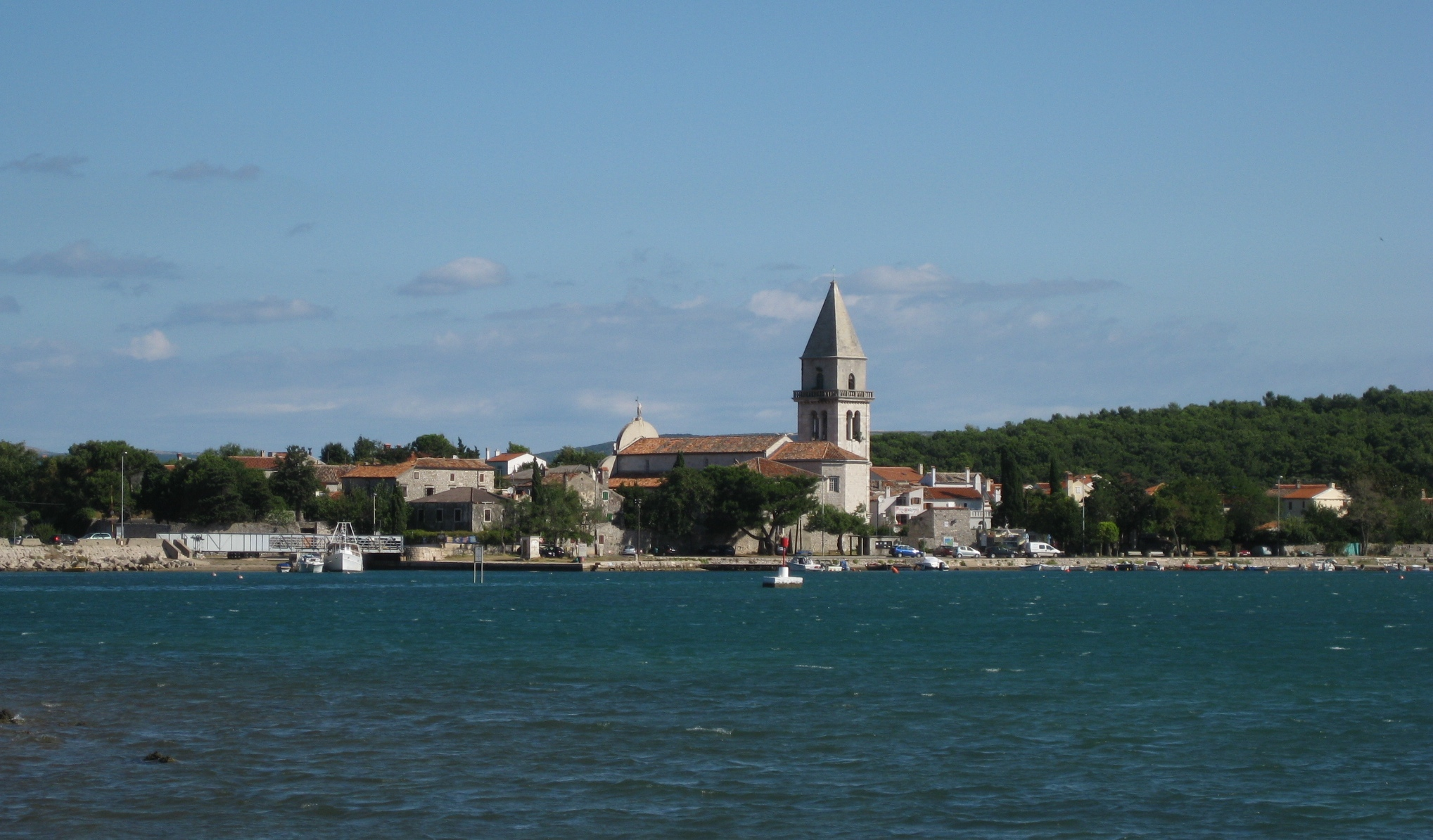 Osor, town on croatian island Cres